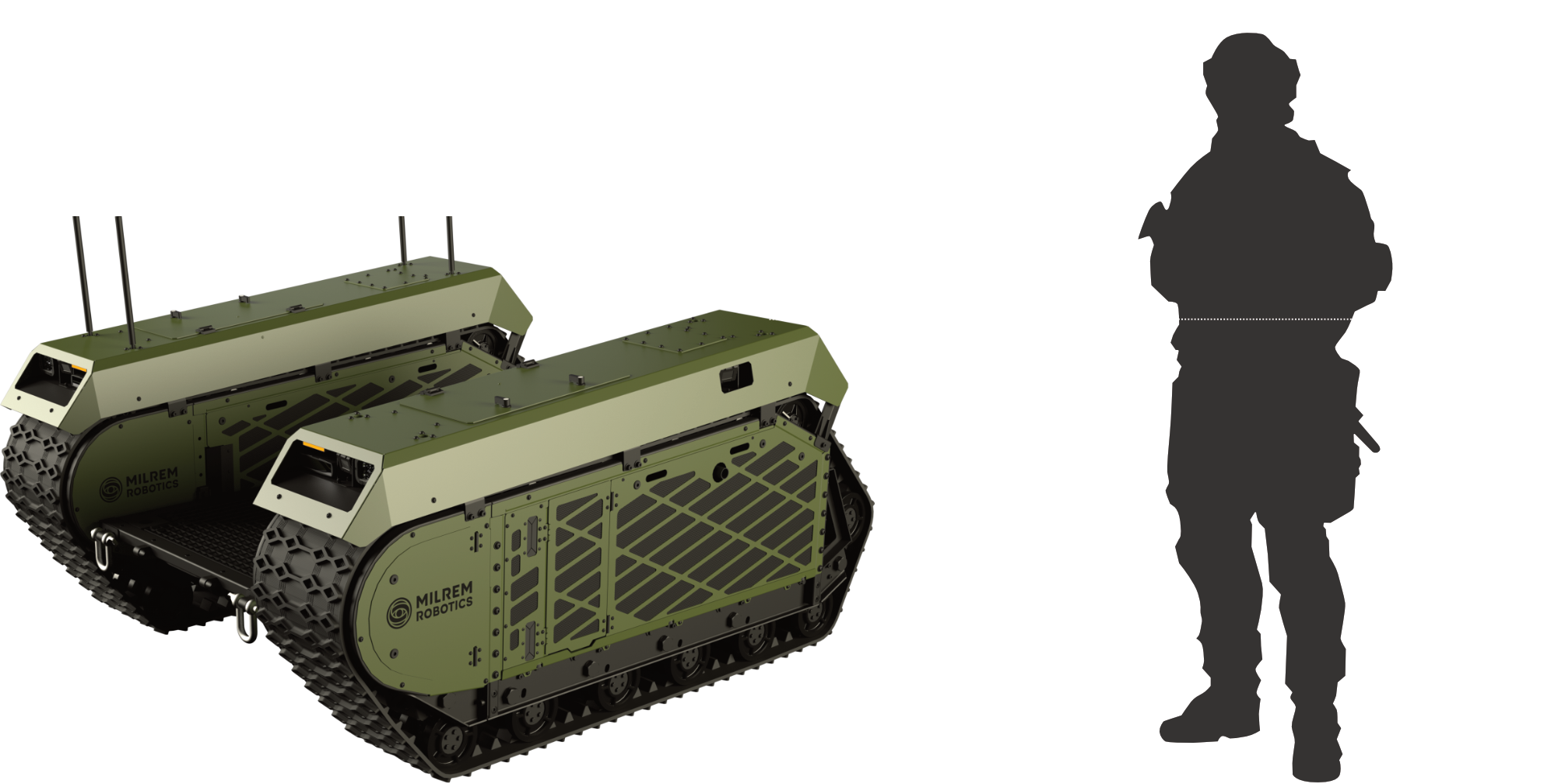 Size comparison between human and THeMIS UGV